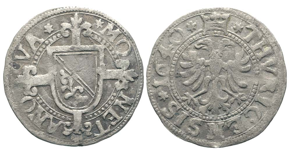 Zurich, 1640, billion Schilling. Weight: 2.3g. Diameter: 26mm. Obverse: Double headed eagle, legend: "THURICENSIS 1640". Reverse: coat of arms of Zurich superimposed on a n ornate cross, legend: "MONETA NOVA".